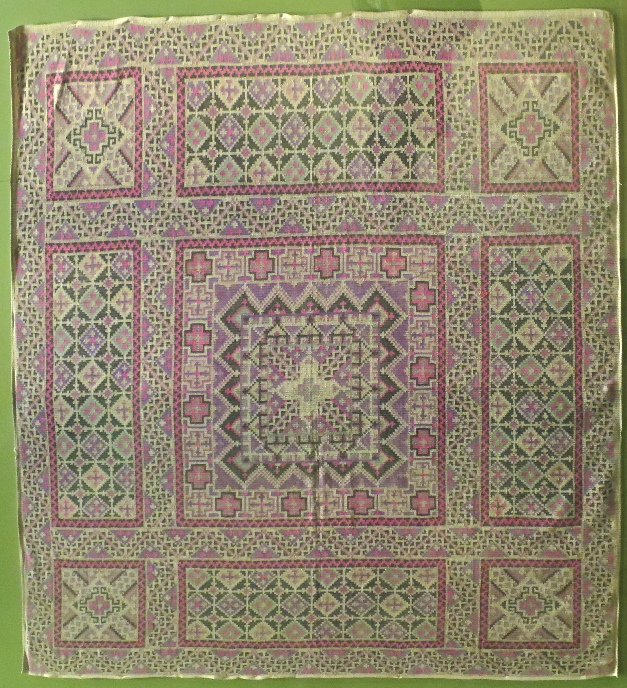 Pis siyabit (headscarf), Tausug people, southern Mindanao, Zamboanga, Philippines, 20th century, silk, tapestry weave, Honolulu Museum of Art accession 14451.1